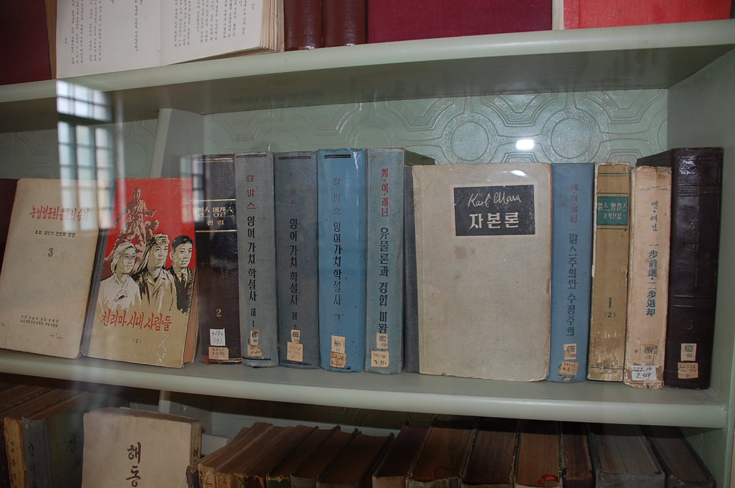 Trip to North Korea in June, 2008